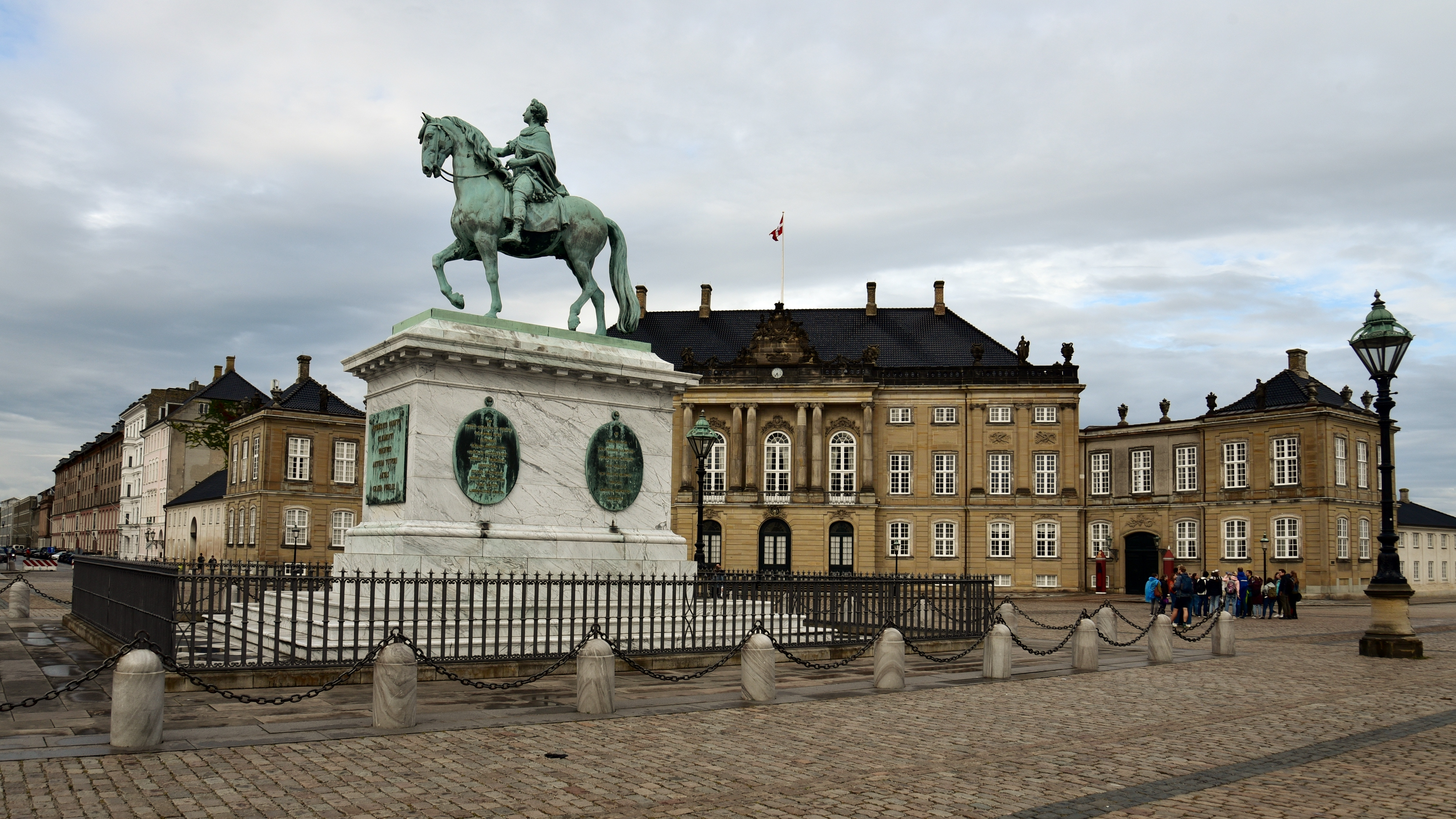 View of the statue of Frederick V (left) and Frederik VIII's Palæ (background), both parts of the Amalienborg, Copenhagen